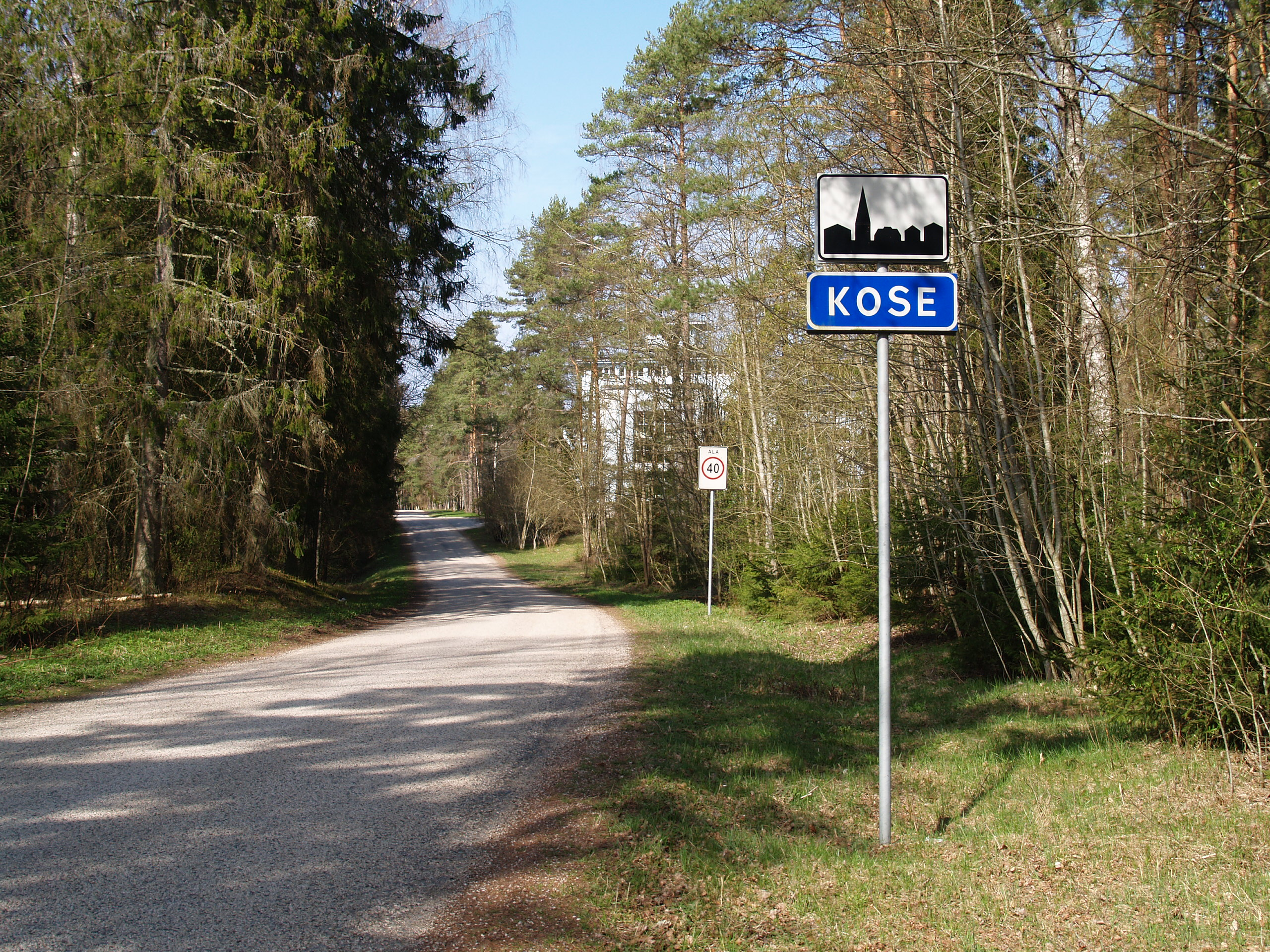 Kose sanatooriumi road in the border of Kose borough.